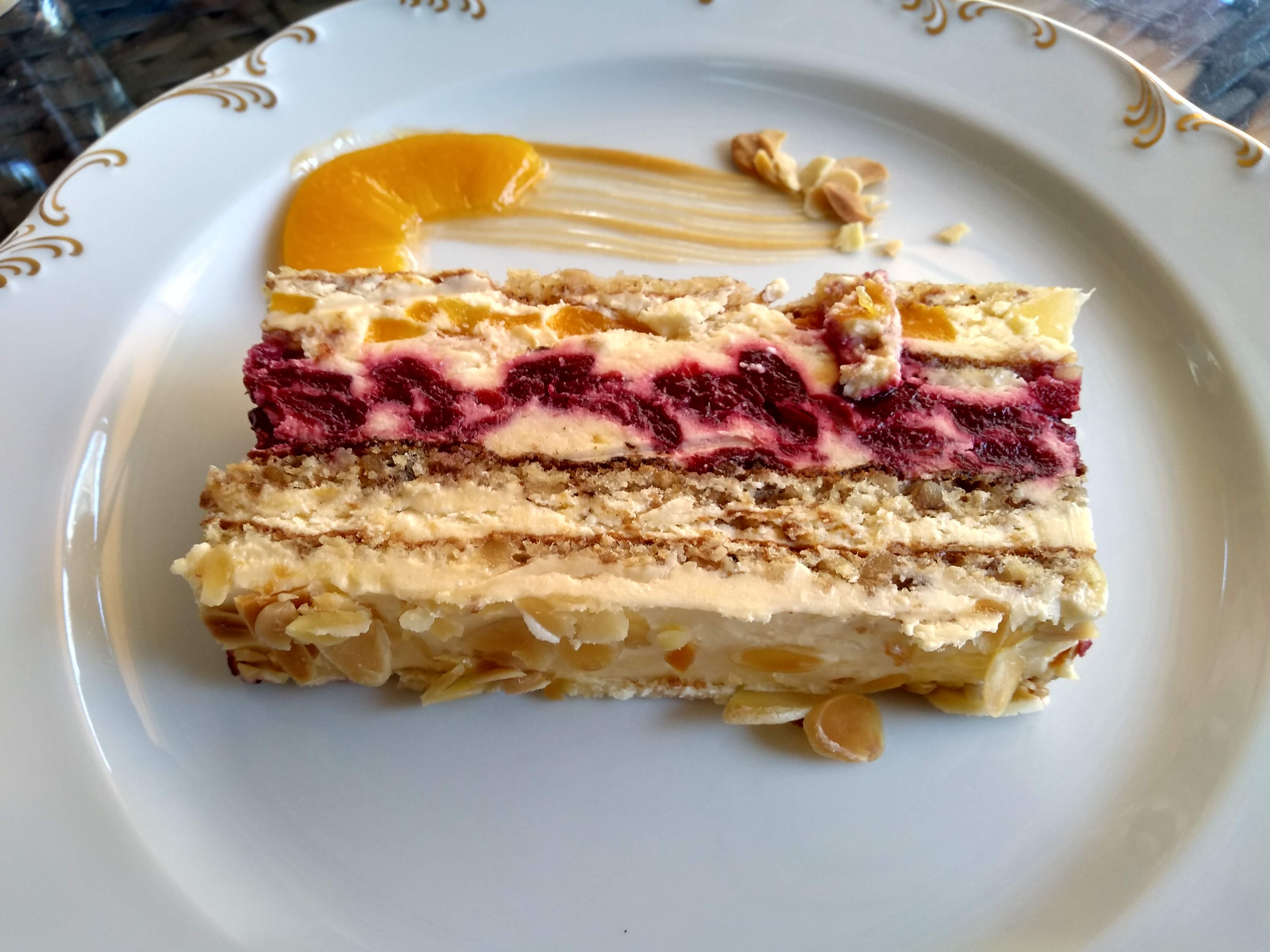 "Moskva slices" cake in Hotel Moskva in Belgrade (Serbia